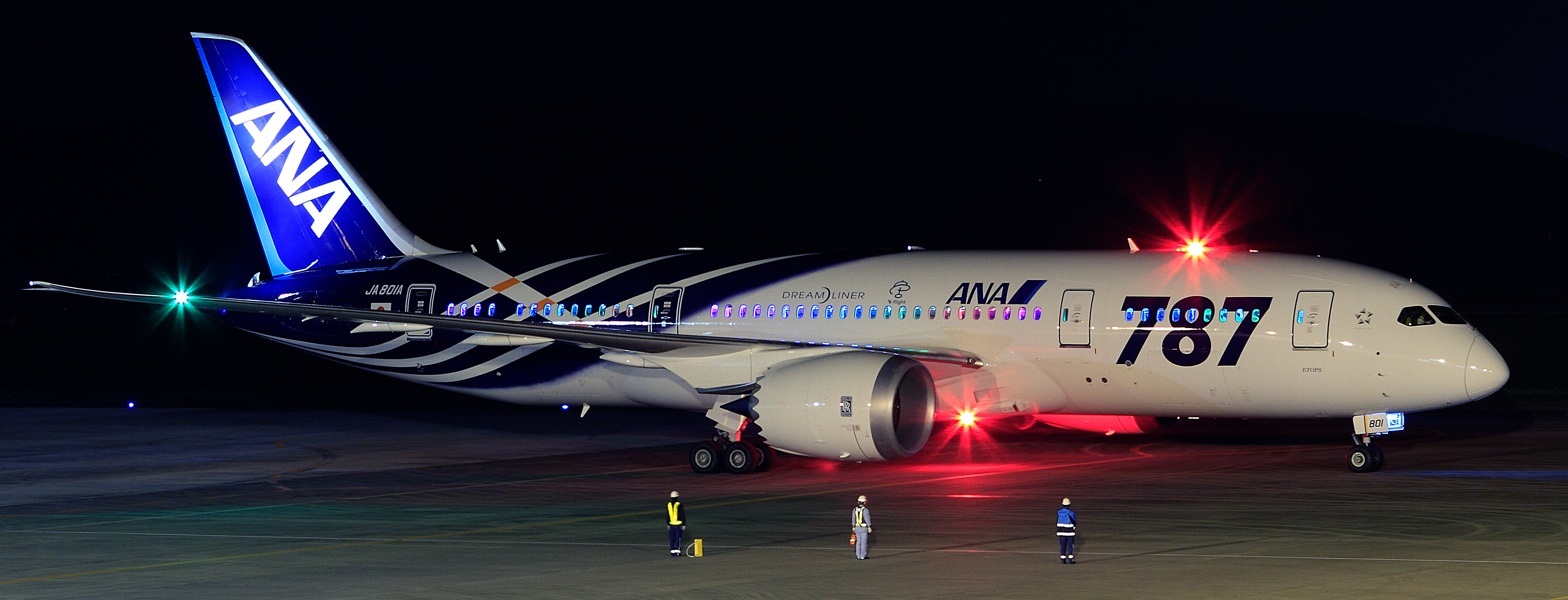 All Nippon Airways Boeing787-8(JA801A) at Okayama Airport